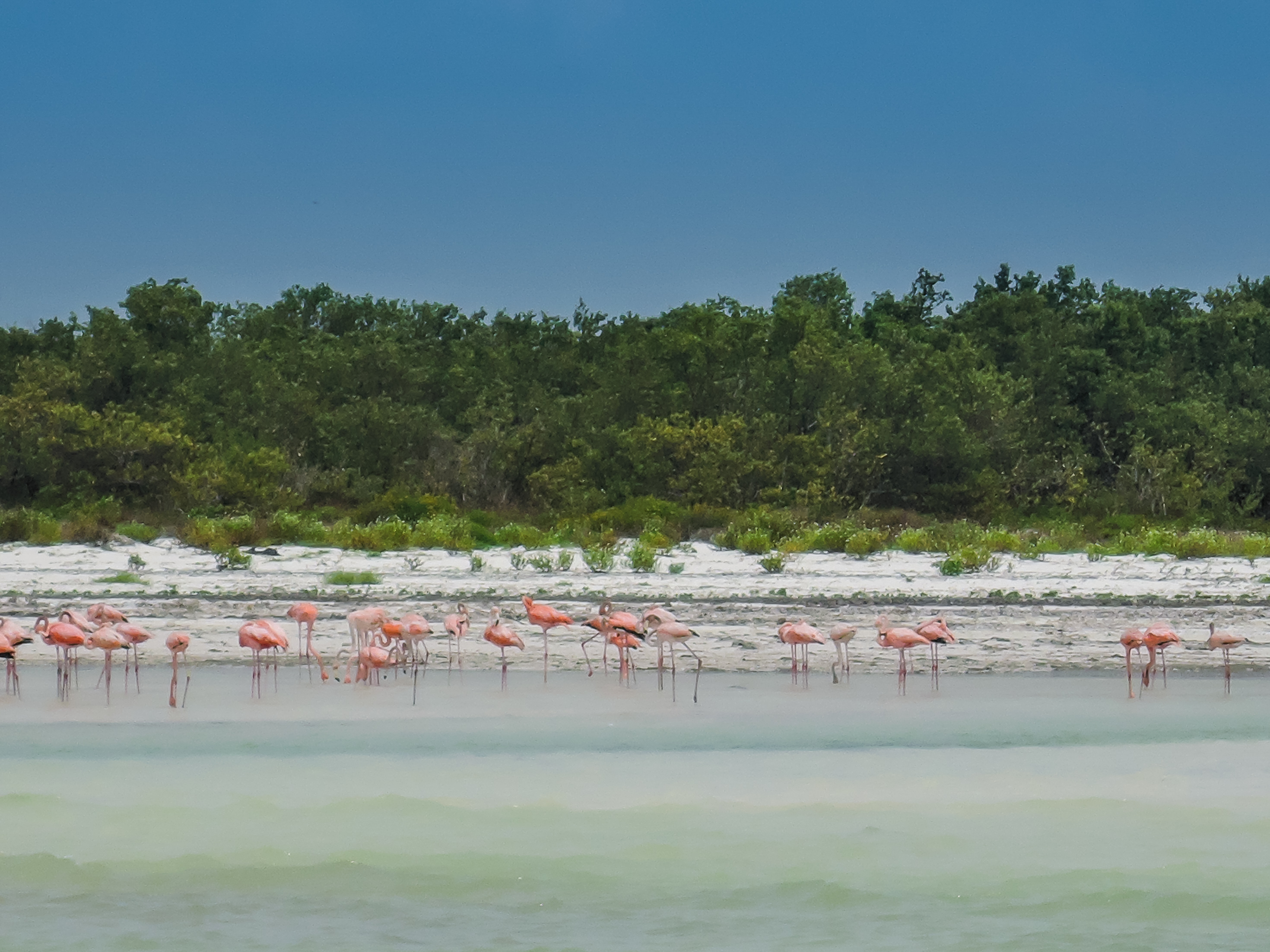 flamingo Holbox island Mexico